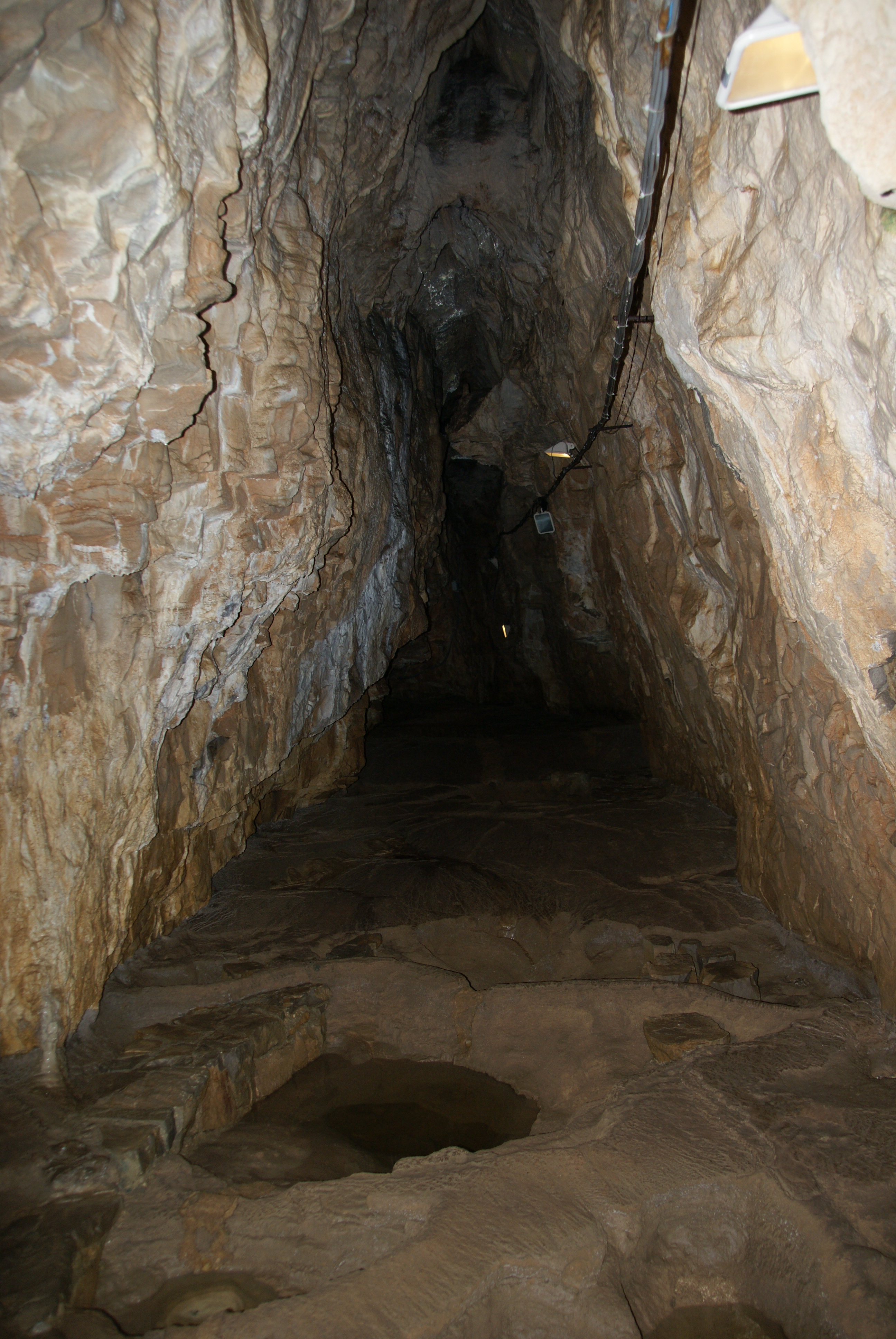 Cave San Giovanni d'Antro near Pulfero, Province of Udine